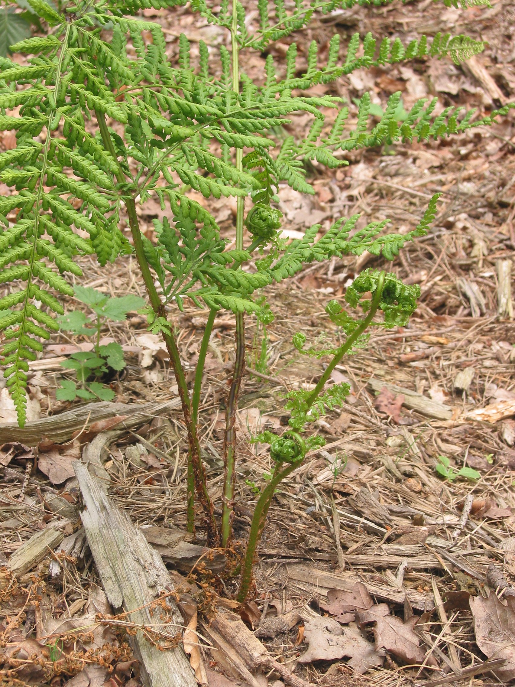 Dryopteris dilatata